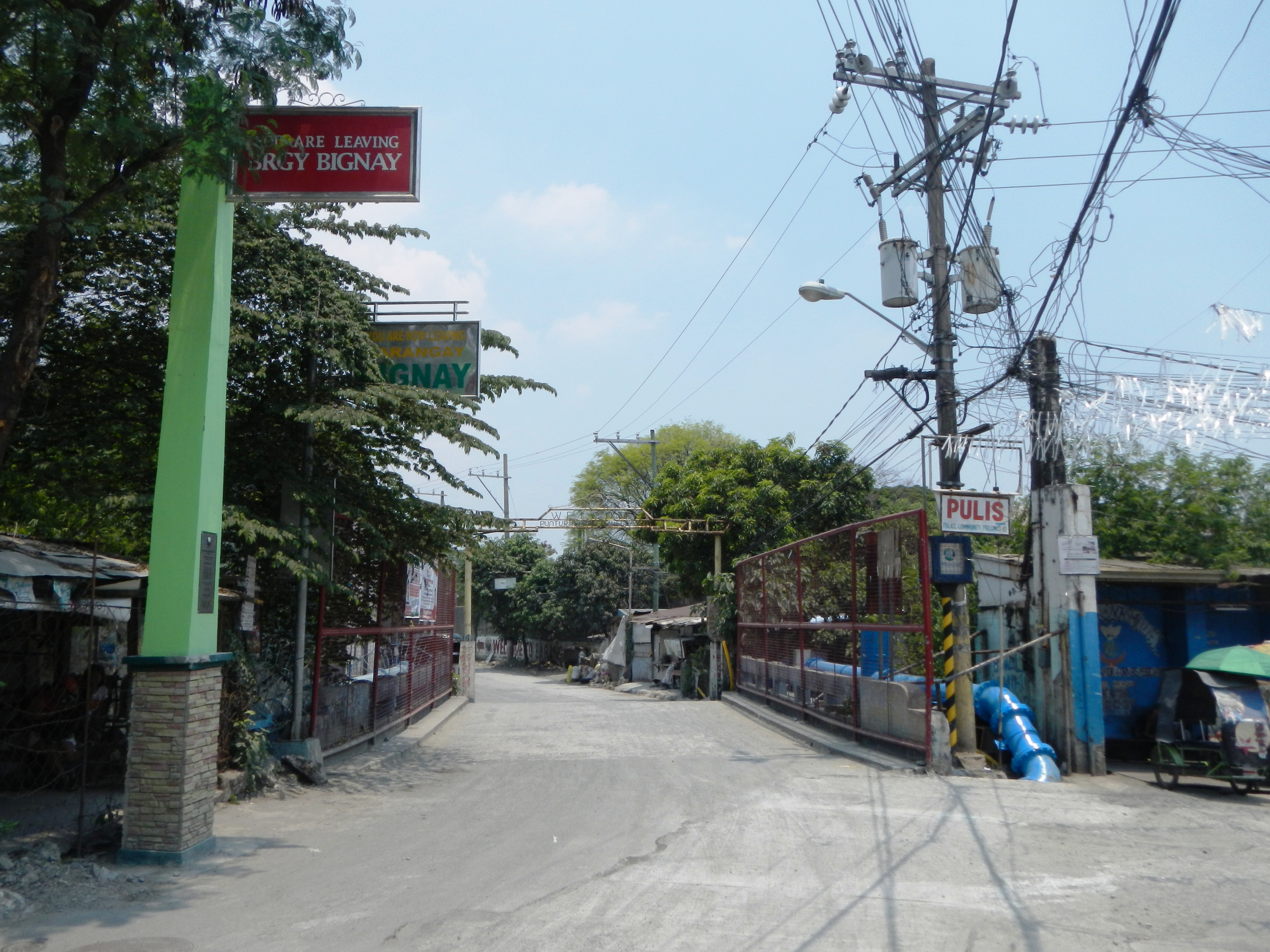 Bignay, Valenzuela welcome road sign.